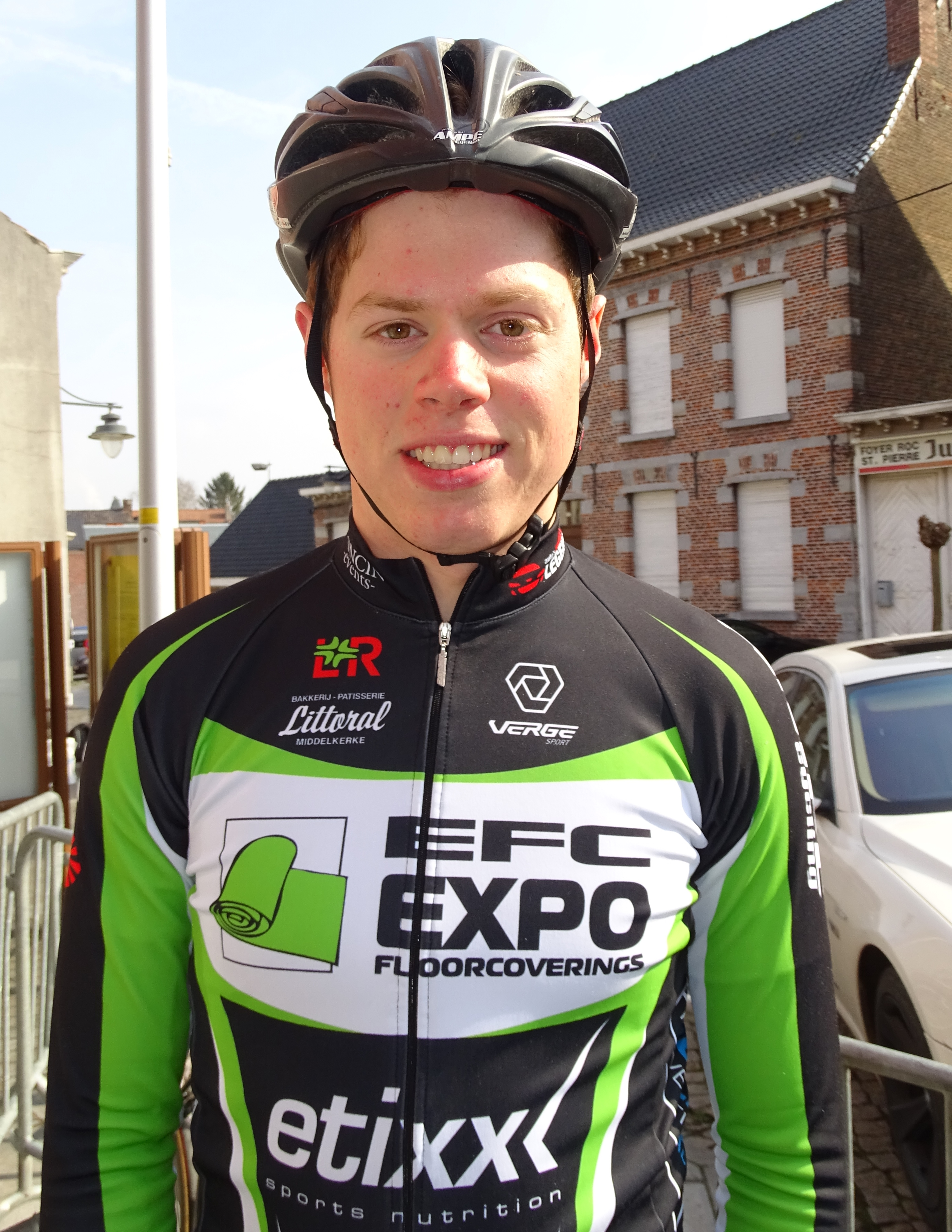 Triptyque des Monts et Châteaux 2016 Depicted person: Depicted team: EFC-Etixx